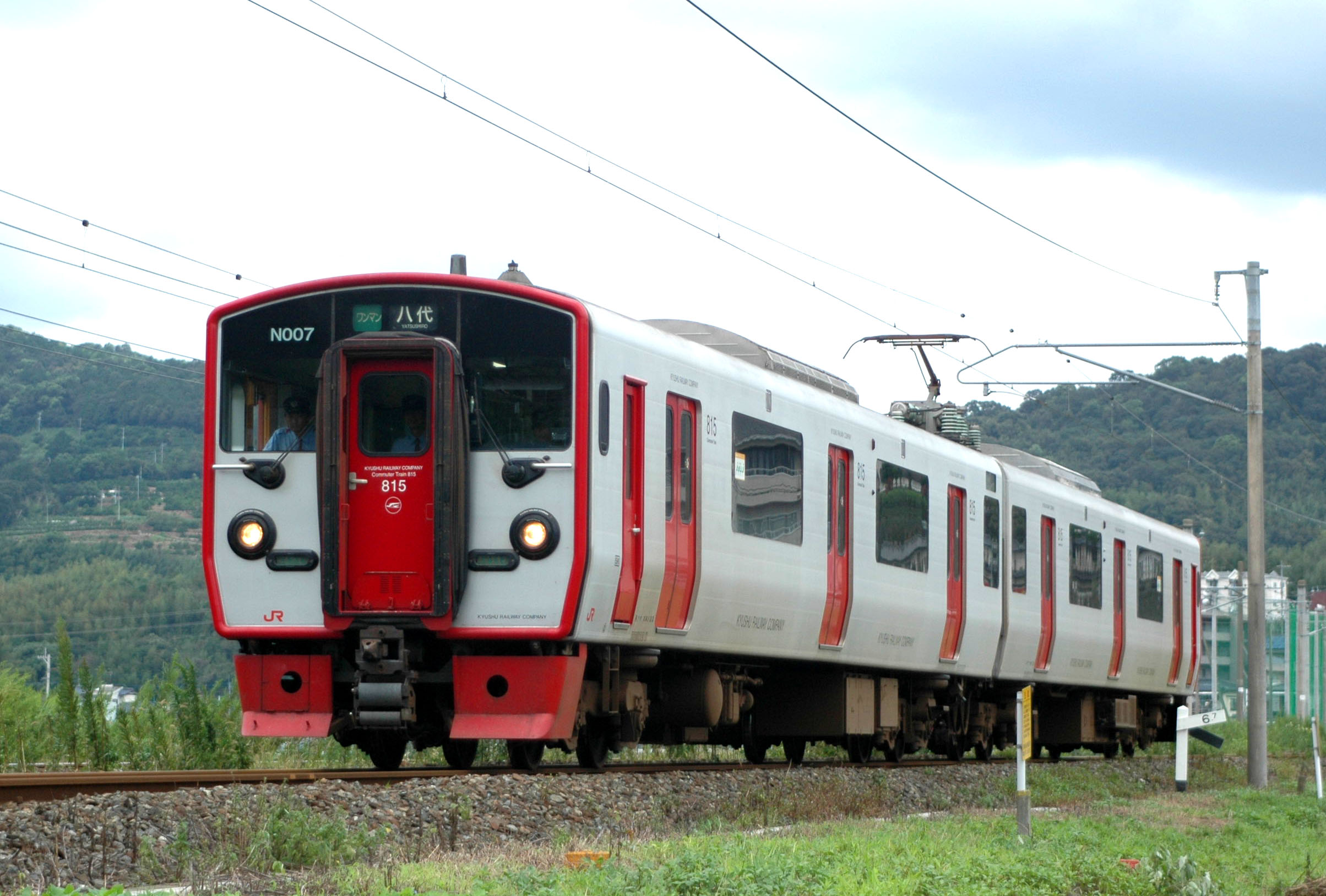 JR Kyushu 815 series EMU